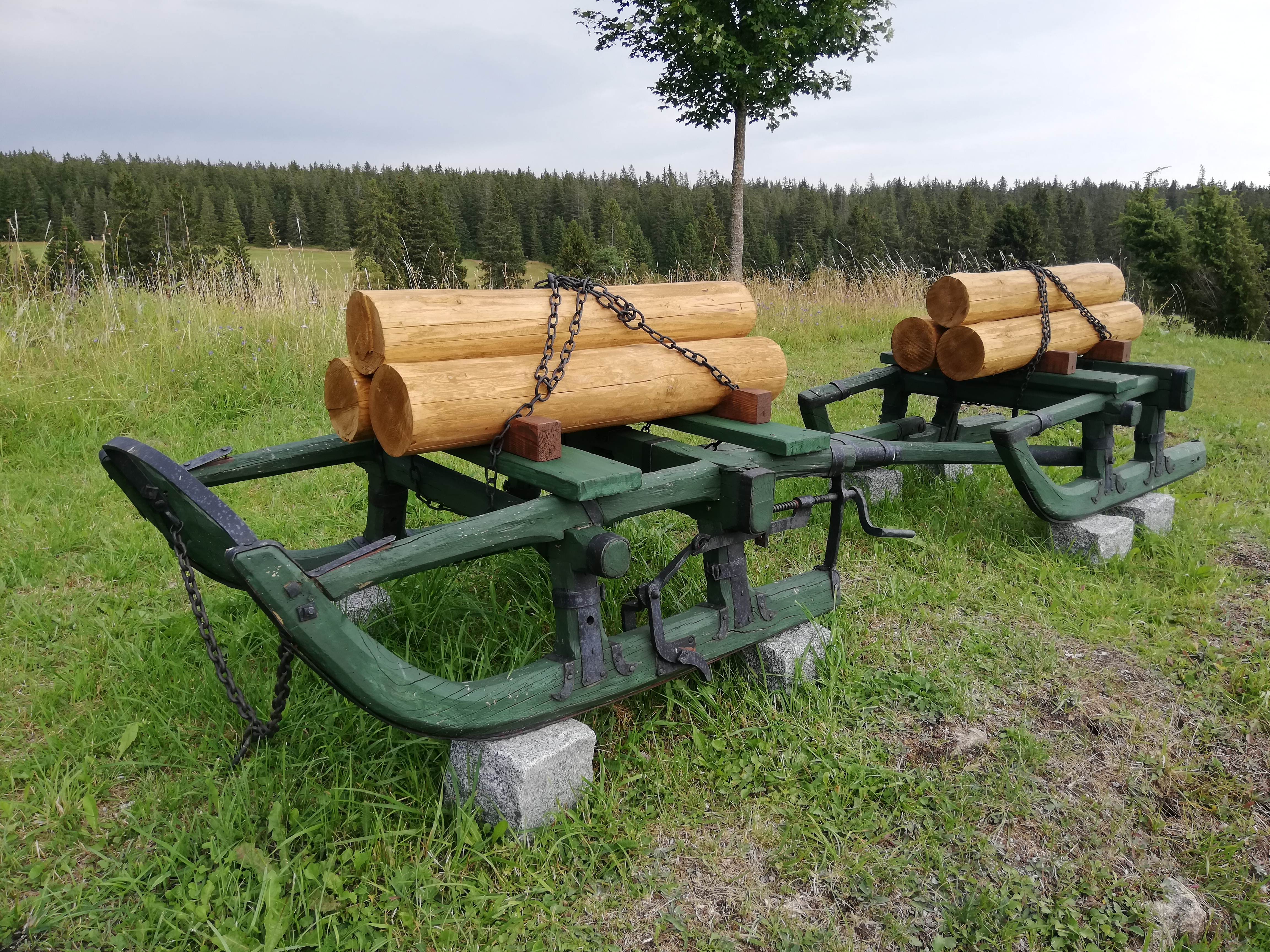 Historical sledges exhibited in the public space on Horská Kvilda (at the Hotel Rankl) were designed for winter wood transport in the Bohemian Forest (Šumava, Czech Republic).